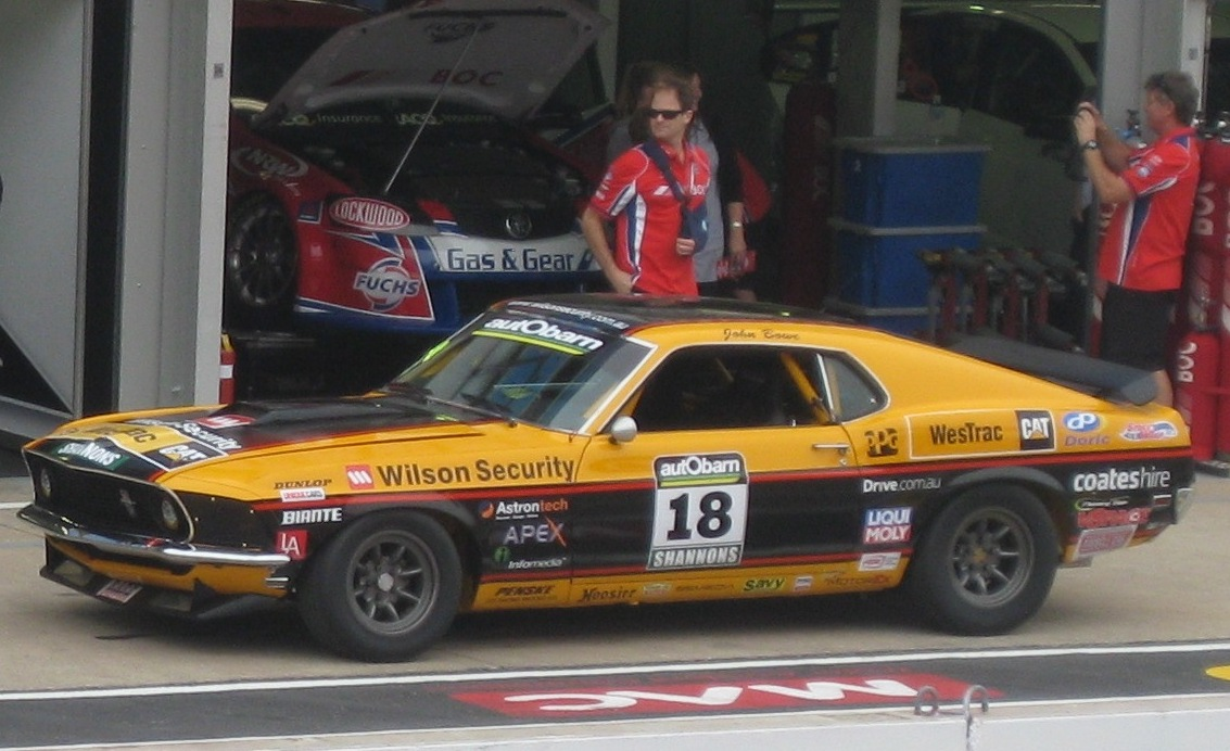 1969 Ford Mustang of John Bowe at the Adelaide Parklands Circuit for the opening round of the 2011 Touring Car Masters